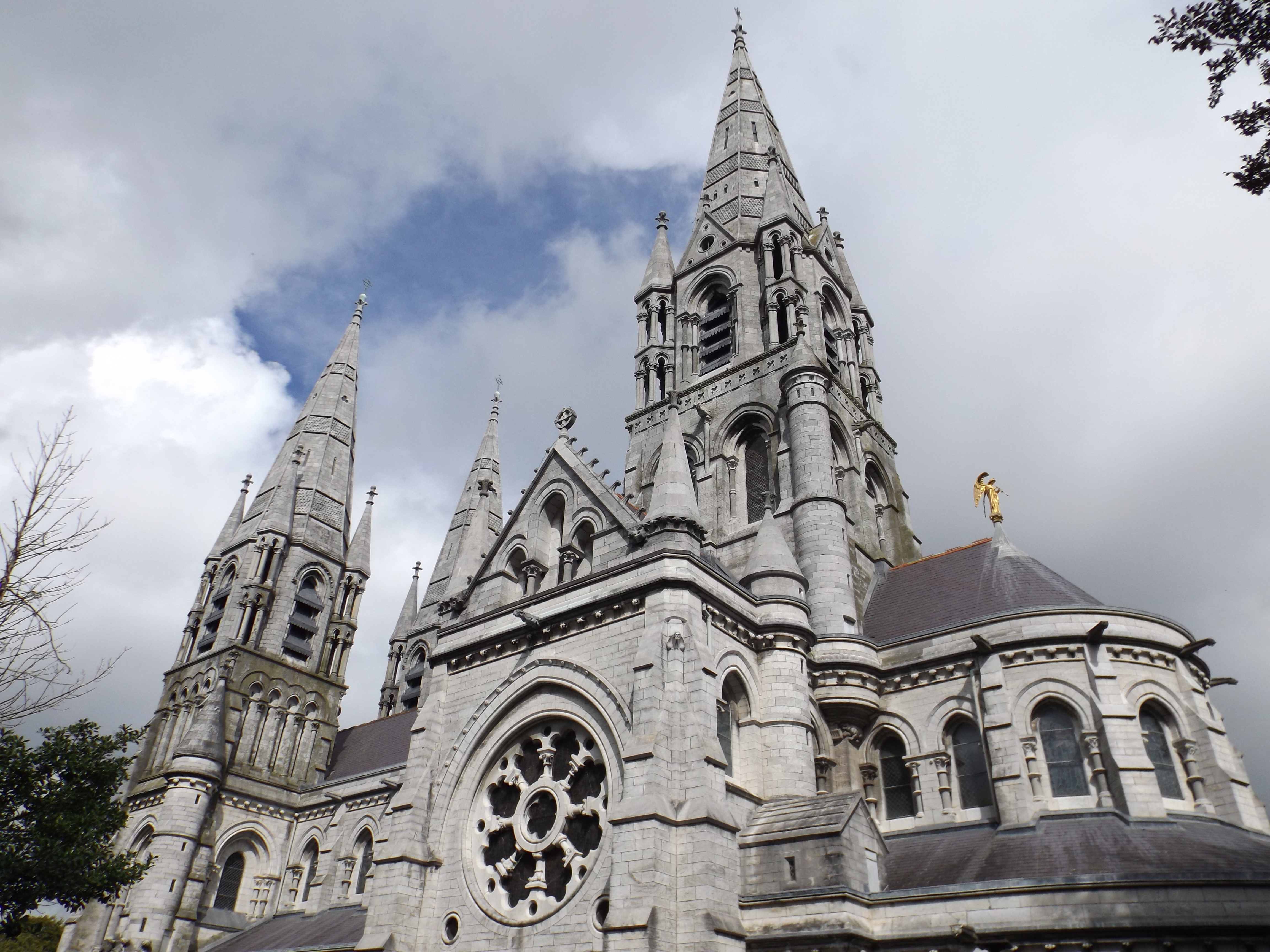 St Finbarres Cathedral